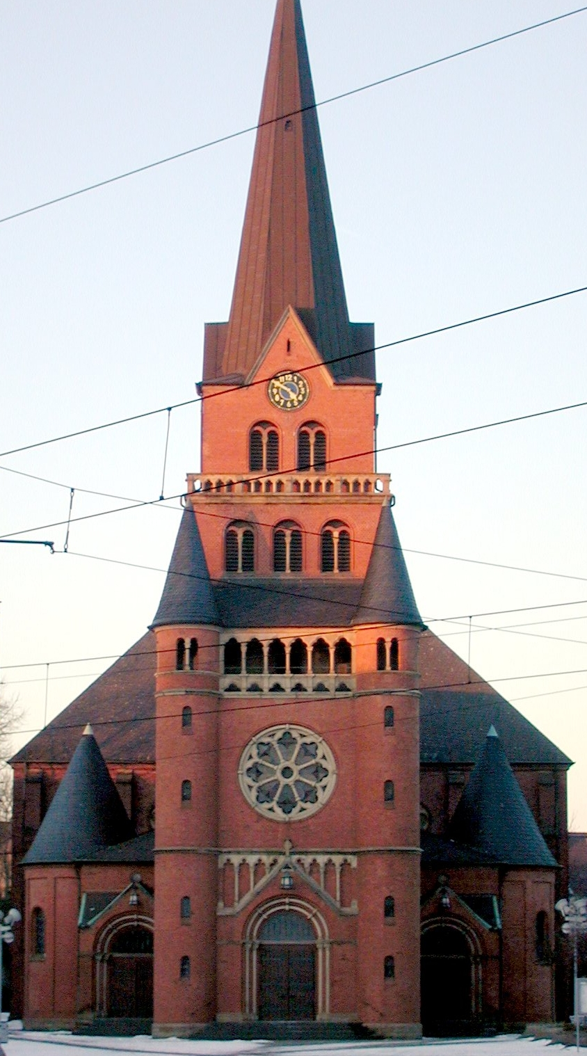 roman catholic church St. Marien in Witten